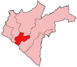 Map of Grand Bassa County, Liberia showing St. John River District; created with the GIMP. Made by User:Acntx.